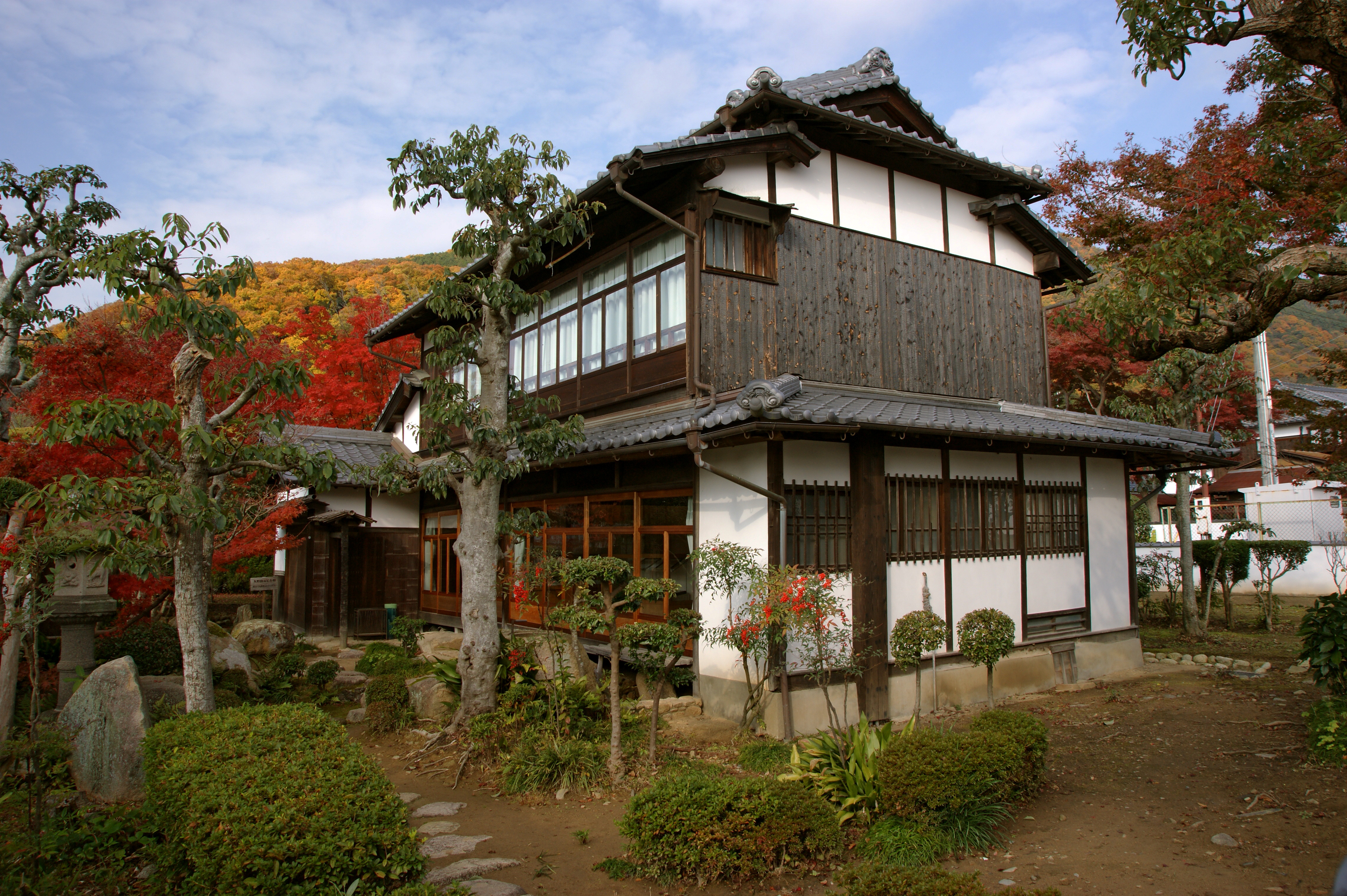 Kajokan, Tatsuno, Hyogo prefecture, Japan